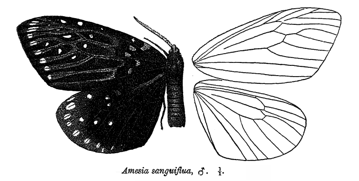 Male Amesia sanguiflua Drury, 1773, upperside and wing venation